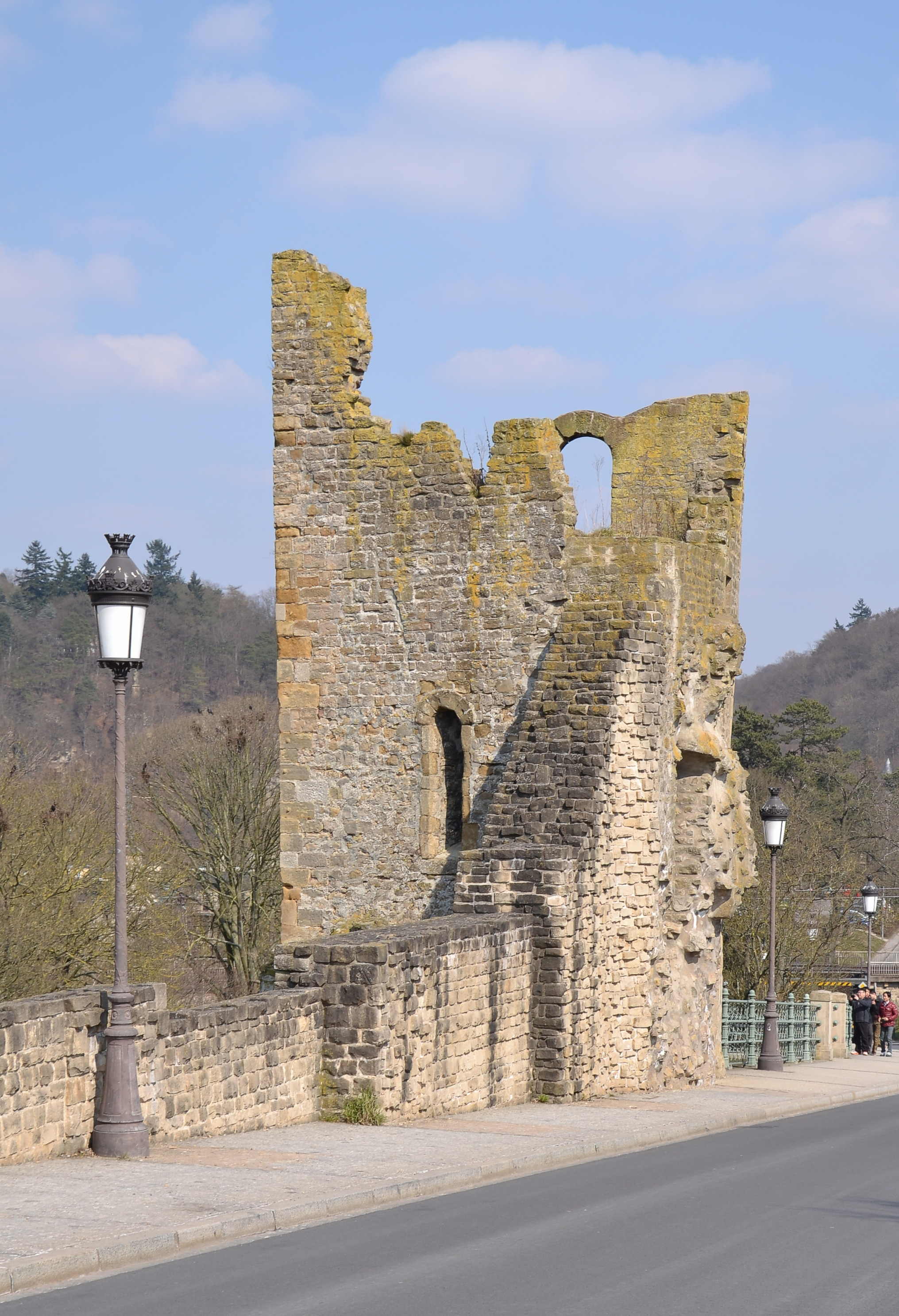 Huelen Zant tower, Luxembourg City